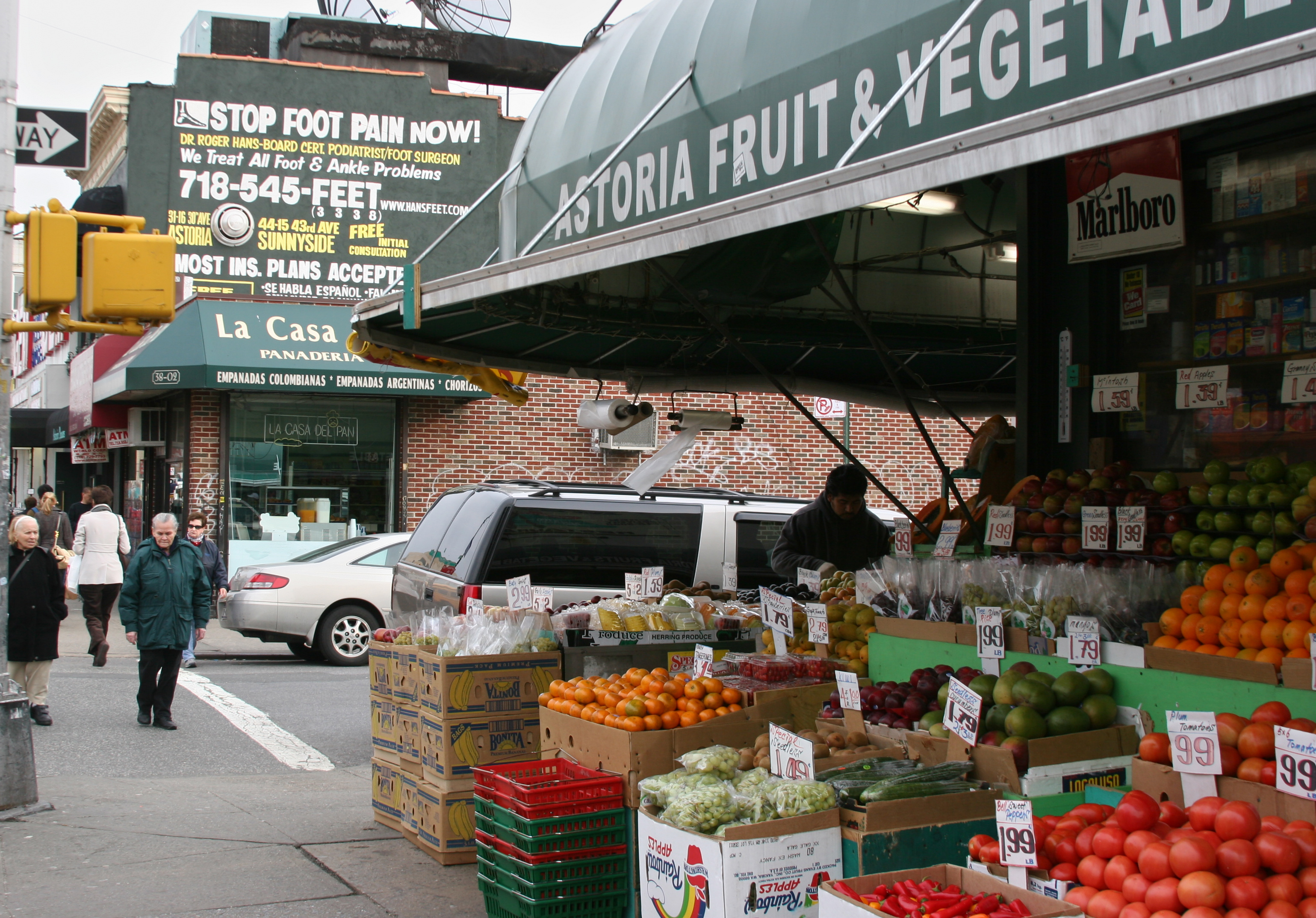 Market in Astoria Queens, NYC. Photo by User:Aude, taken on March 26, 2007.